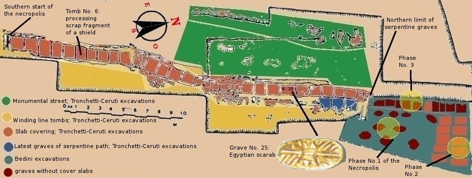 Monte Prama necropolis plan